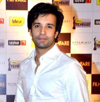 Amir ali 2011